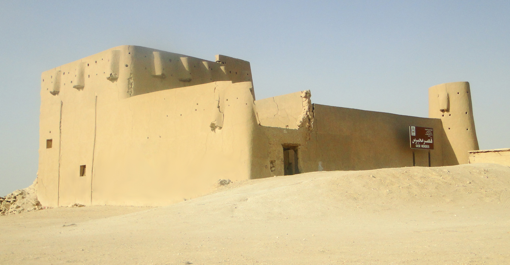 Qasr meherus